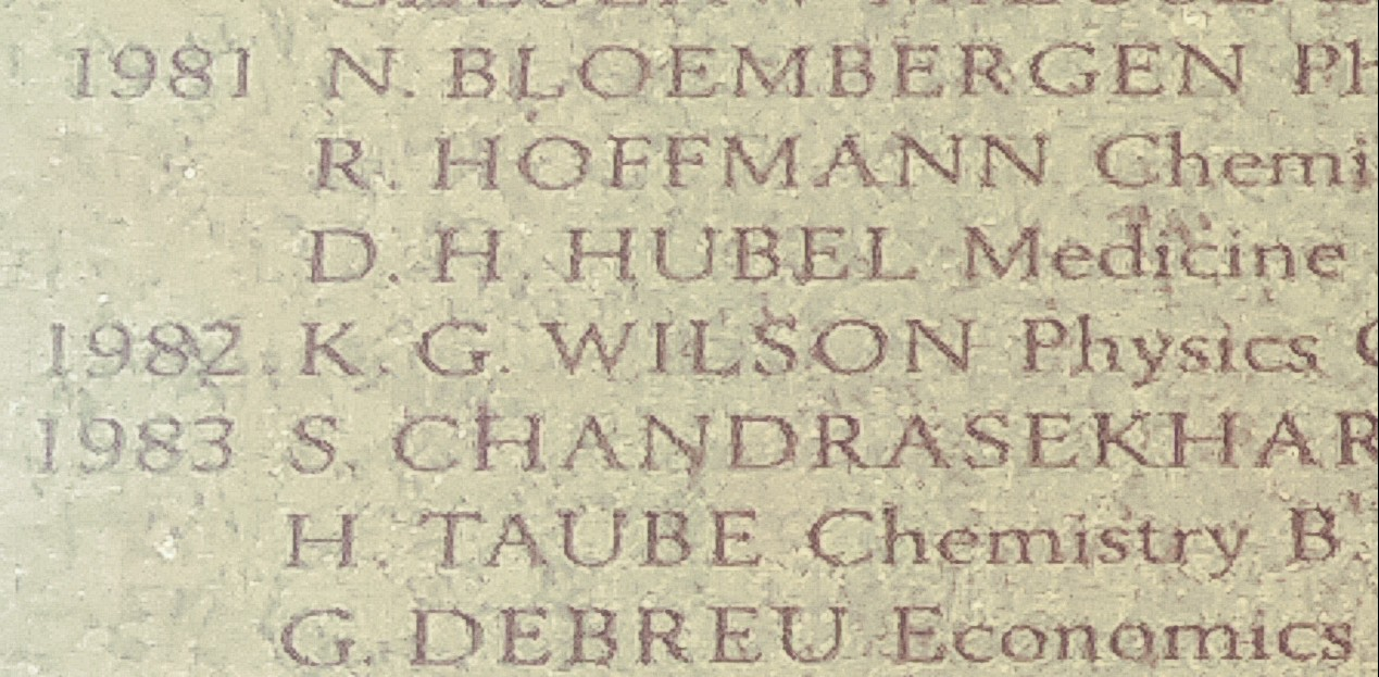 Kenneth G. Wilson's name on the Nobel Monument (in Theodore Roosevelt Park in Manhattan) which lists US Nobel laureates